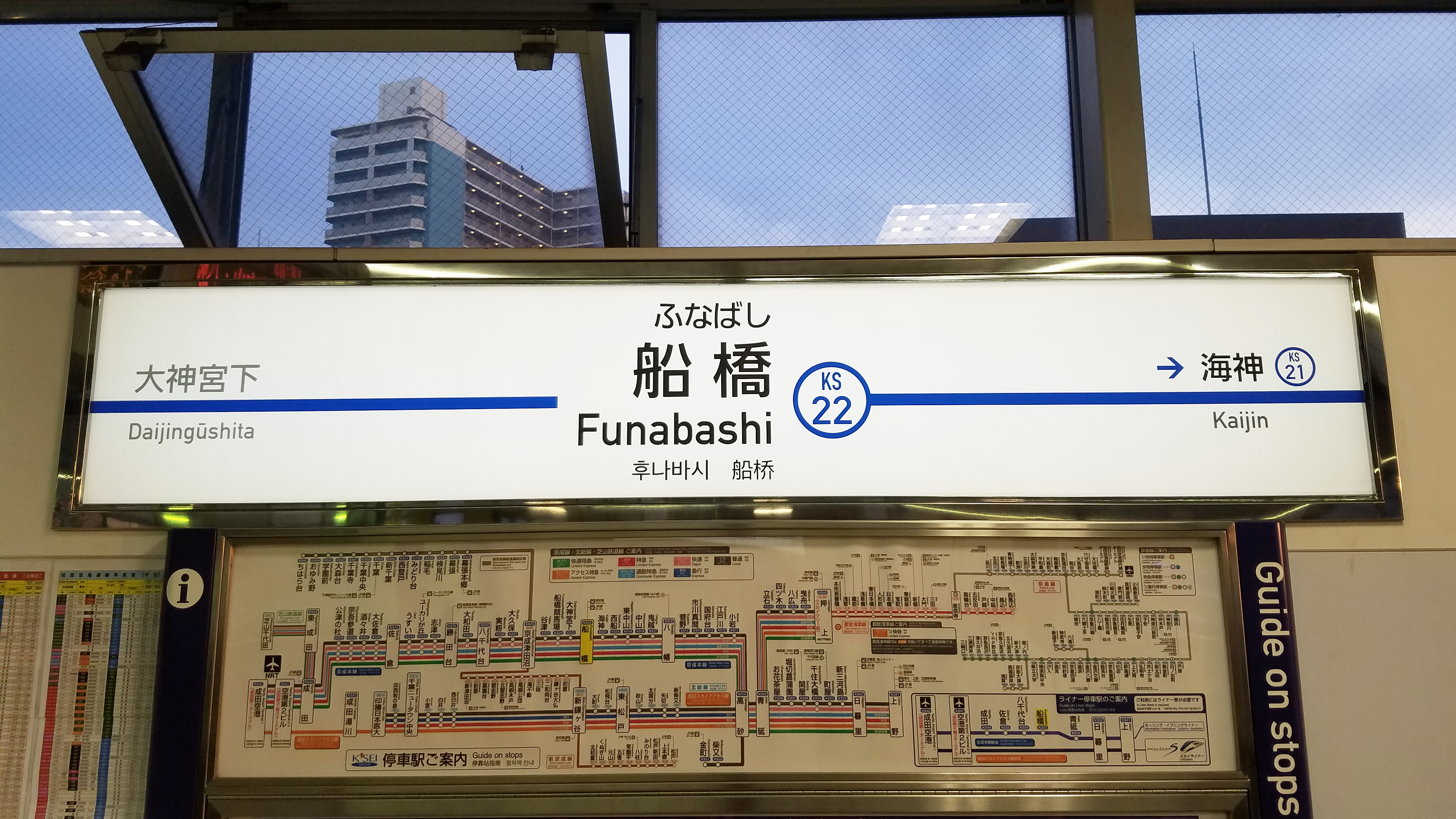 The station sign at Keisei Funabashi Station on the Keisei Main Line in Funabashi city, Chiba prefecture, Japan